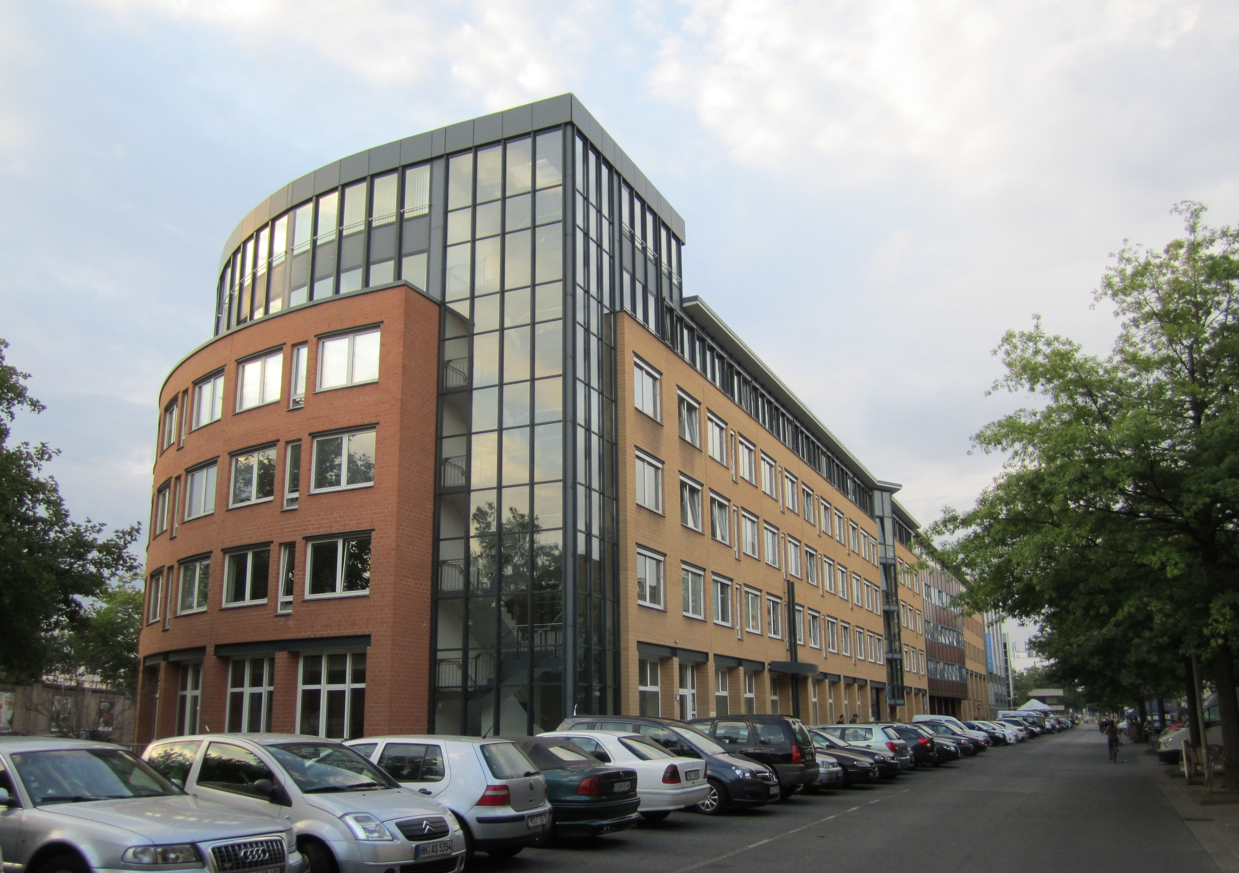 Office building, Nikolaistraße 14/16, Hanover, Germany.